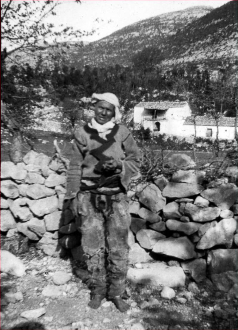 ED011_RAI 400.13169 Albania. Rapsha. A 47-year-old Sworn Virgin from Rapsha in Hoti territory (Photo: Edith Durham, 16 May 1908).